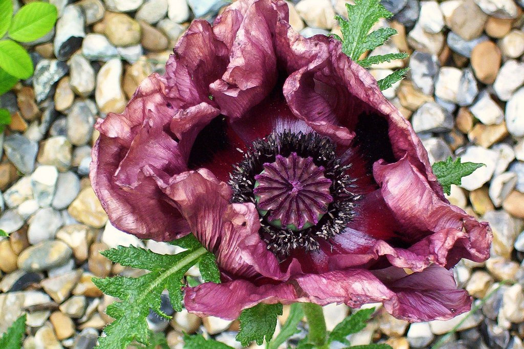 Papaver orientale (Oriental Group) 'Patty's Plum'. A peculiar colour for an oriental poppy and not as strong growing as some but well worth having.